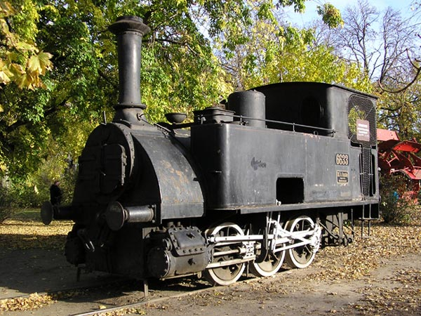 The locomotive (1882) next to the Transport Museum, Budapest